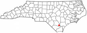 Category:North Carolina Dot Maps